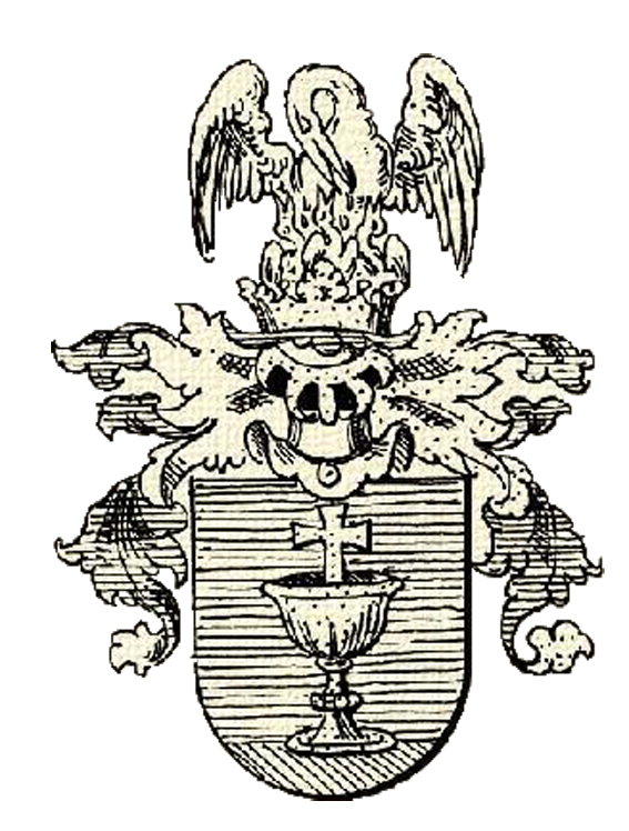 Pop de Negresti noble family